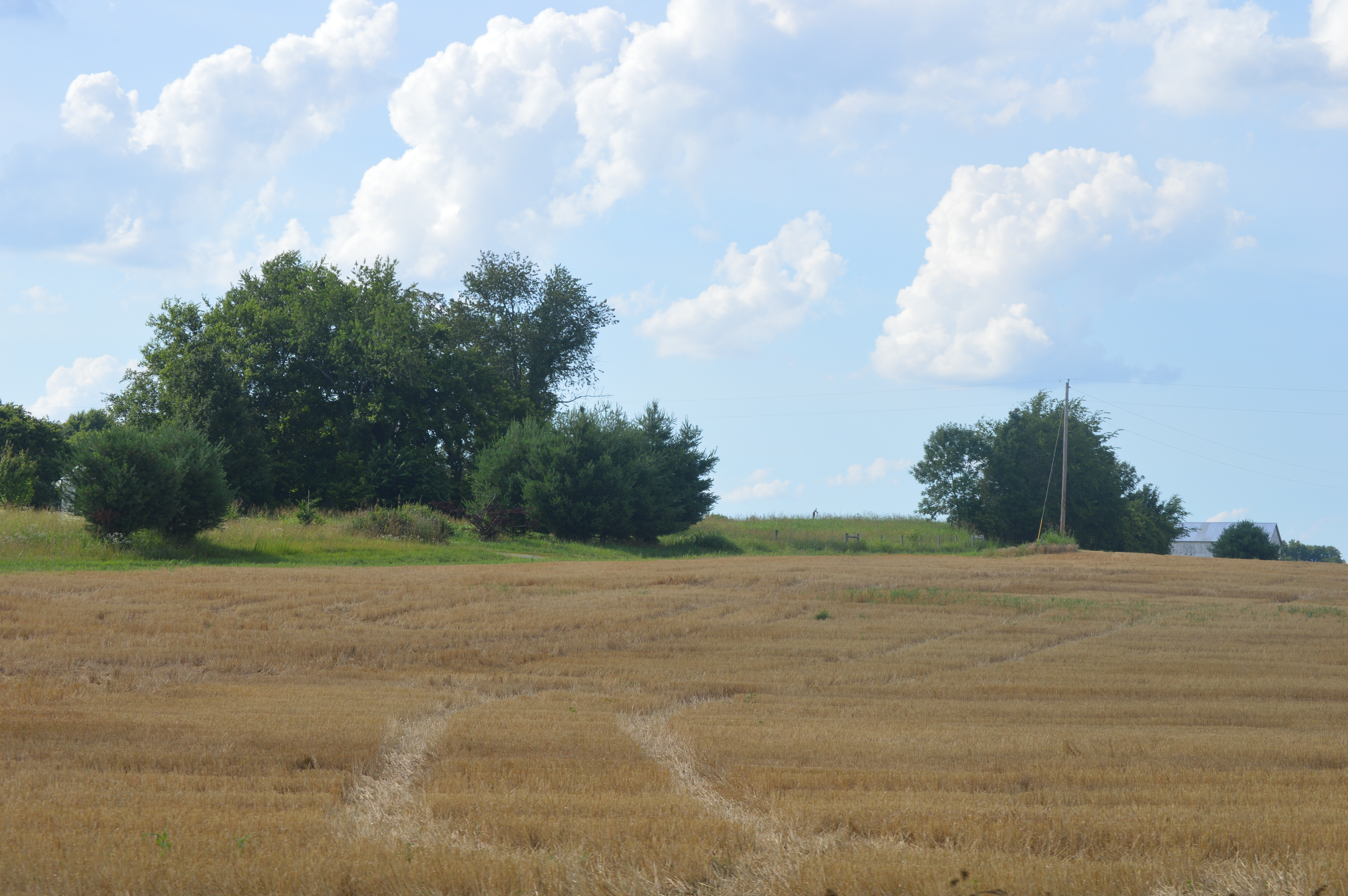 Fields on the northern side of Kentucky Route 1913 just east of Haskingsville in Green County, Kentucky, United States. The greensward in the distance was formerly occupied by the Anderson House, which was listed on the National Register of Historic Places in 1984; although no longer standing, it remains listed on the Register.